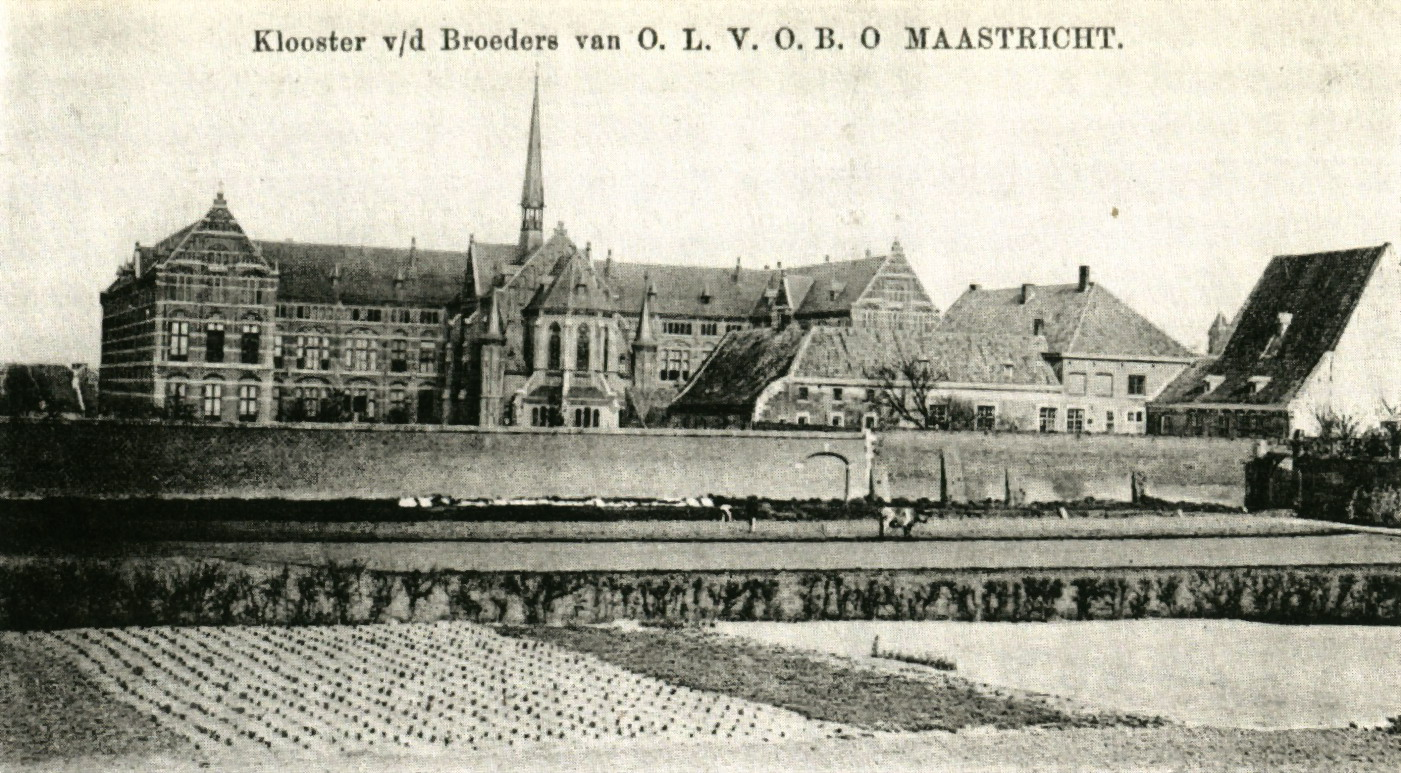 Maastricht, the Netherlands. View of the monastery of the Brethren of Maastricht around 1900 on the old Beyart monastery site.